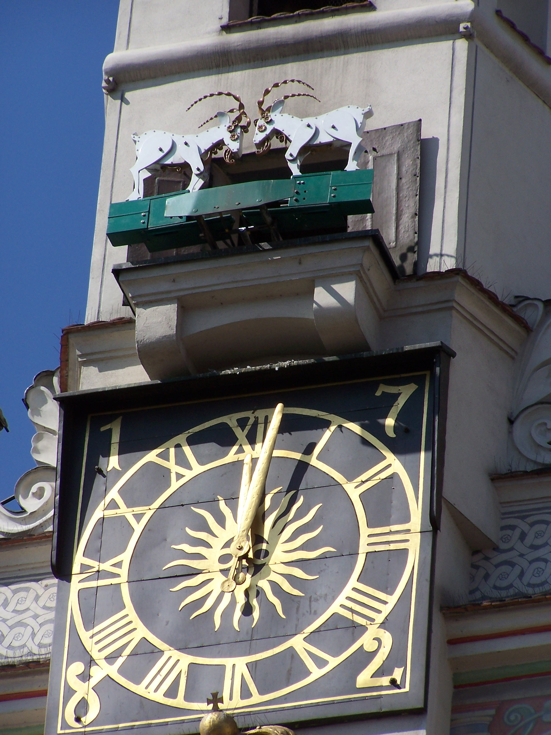 Mechanical goats in Pozan town hall clock